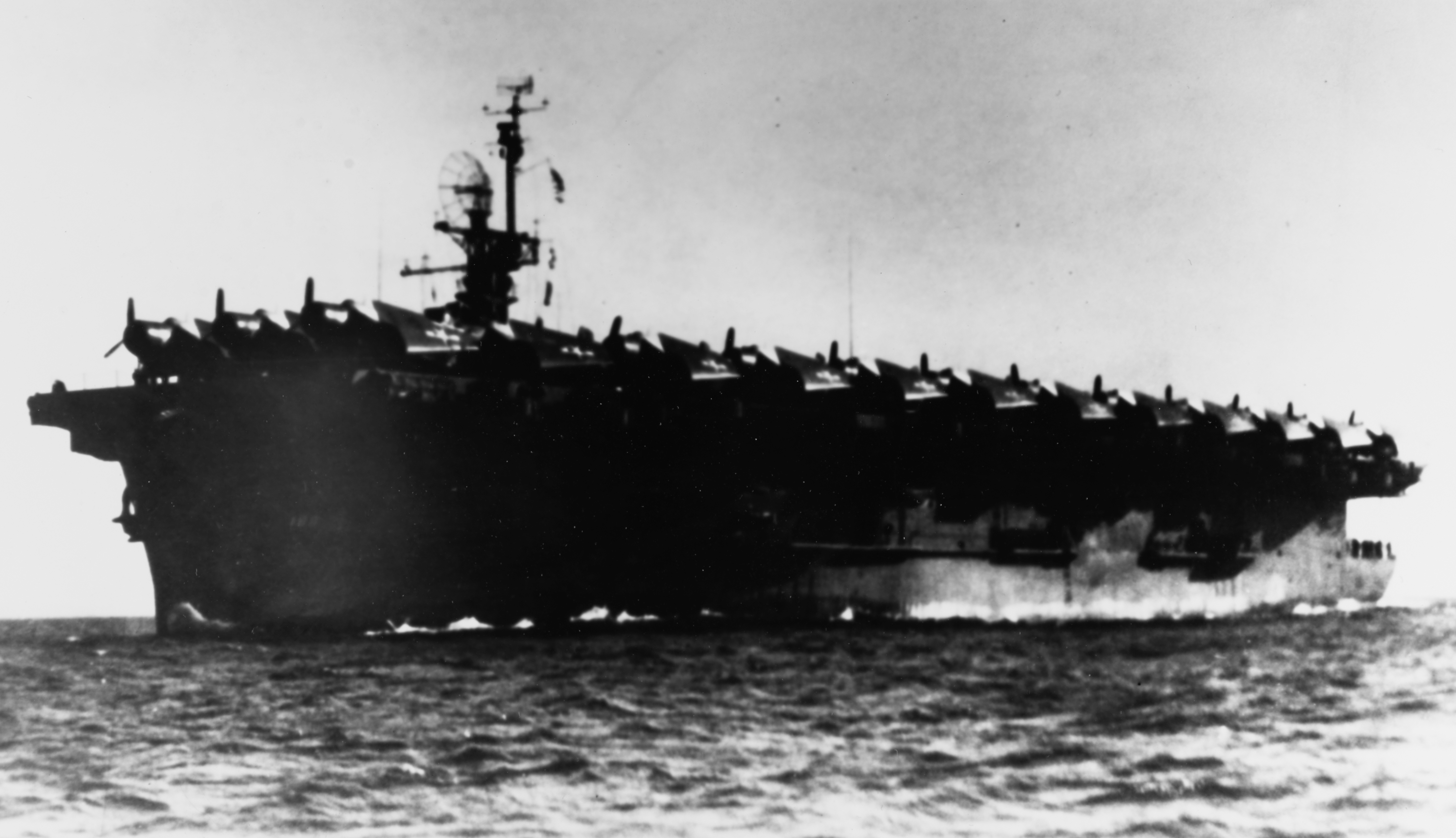 The U.S. Navy escort carrier USS Bougainville (CVE-100) at sea, circa in 1945.